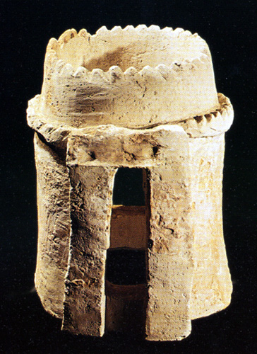 I am the creator of this file. Use freely.